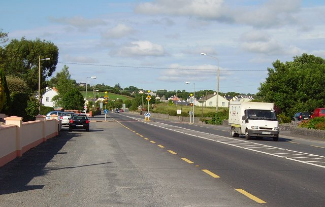 Lissycasey N68 running through Lissycasey.